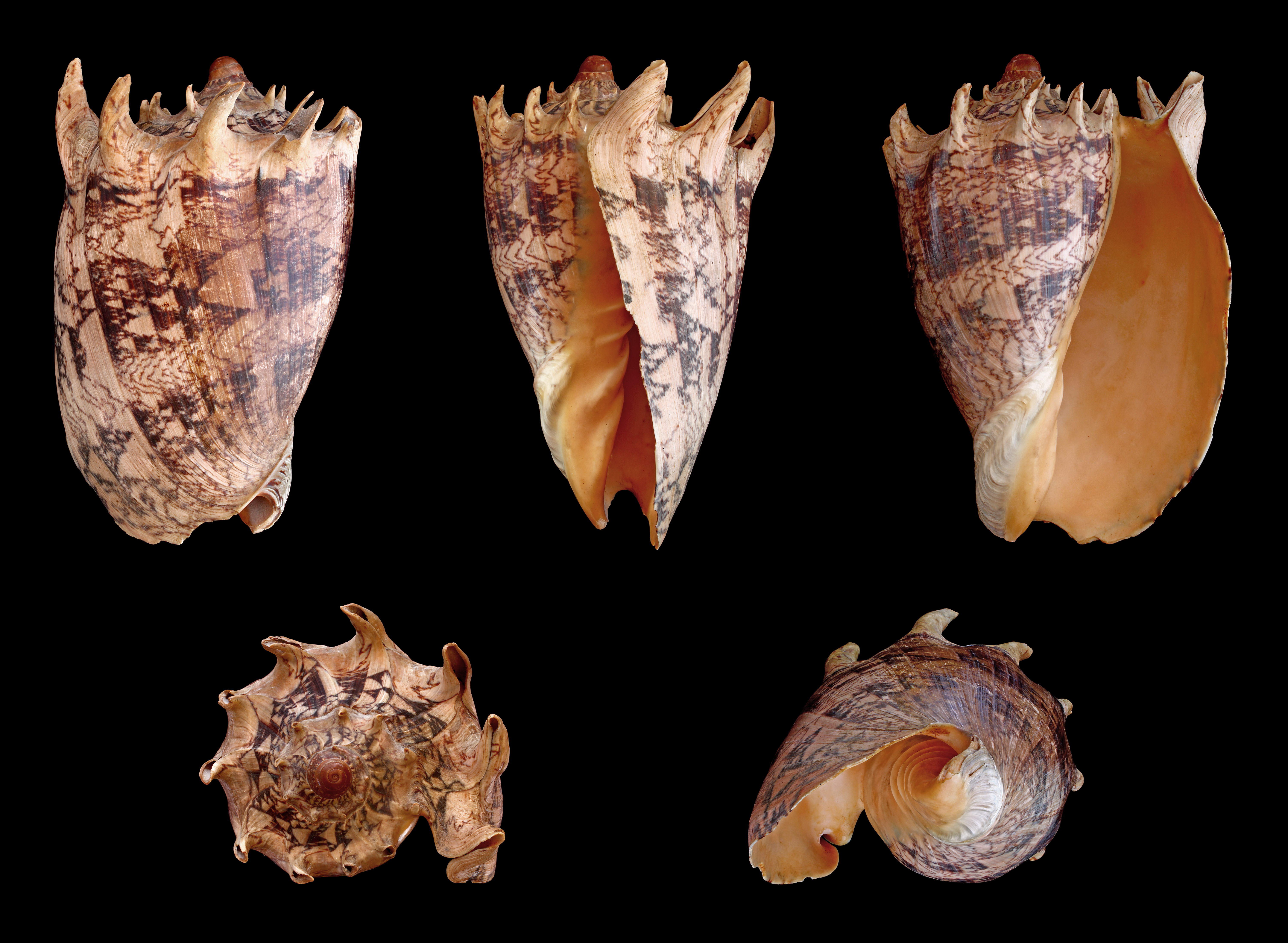 Imperial Volute, length 21 cm, originating from Philippines. Shell of own collection, therefore not geocoded. From left to right: Dorsal, lateral (right side), ventral, back, and front view.